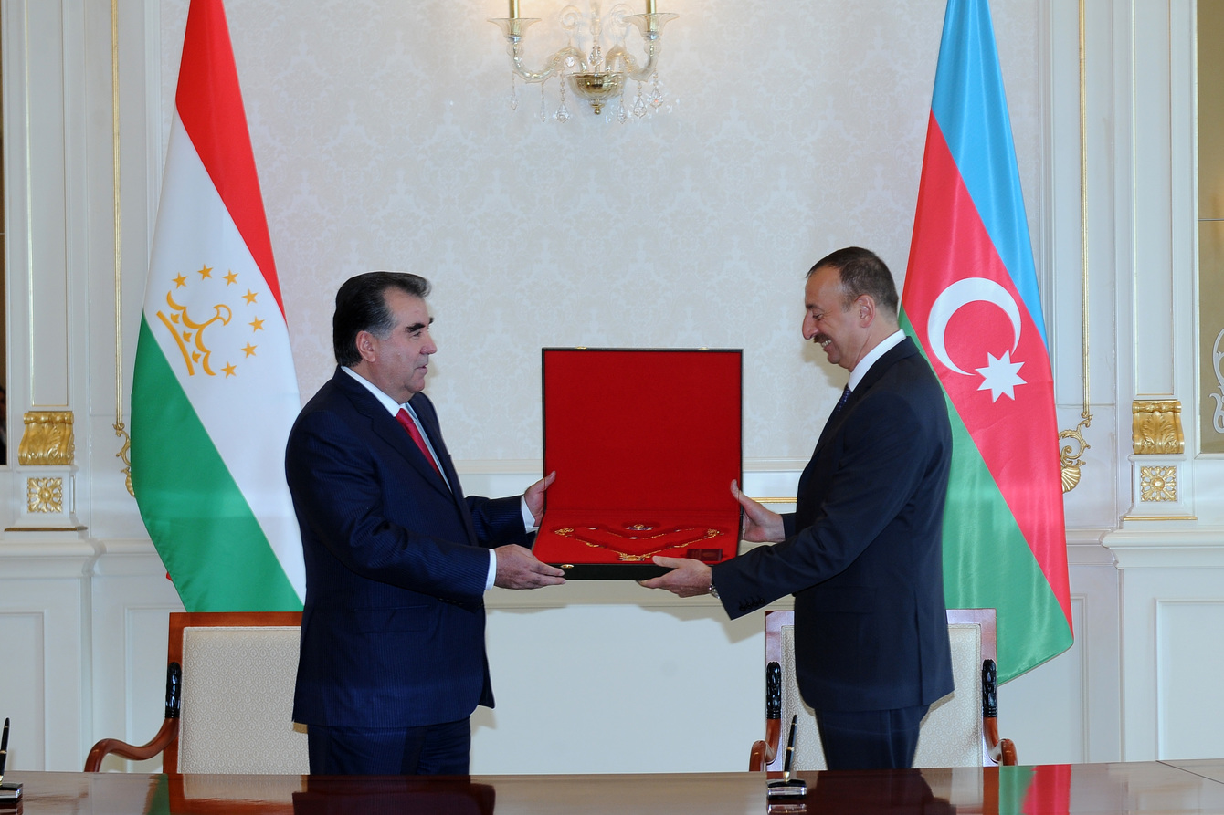 Ceremony of presenting awards was held (Azerbaijan-Tajikistan)